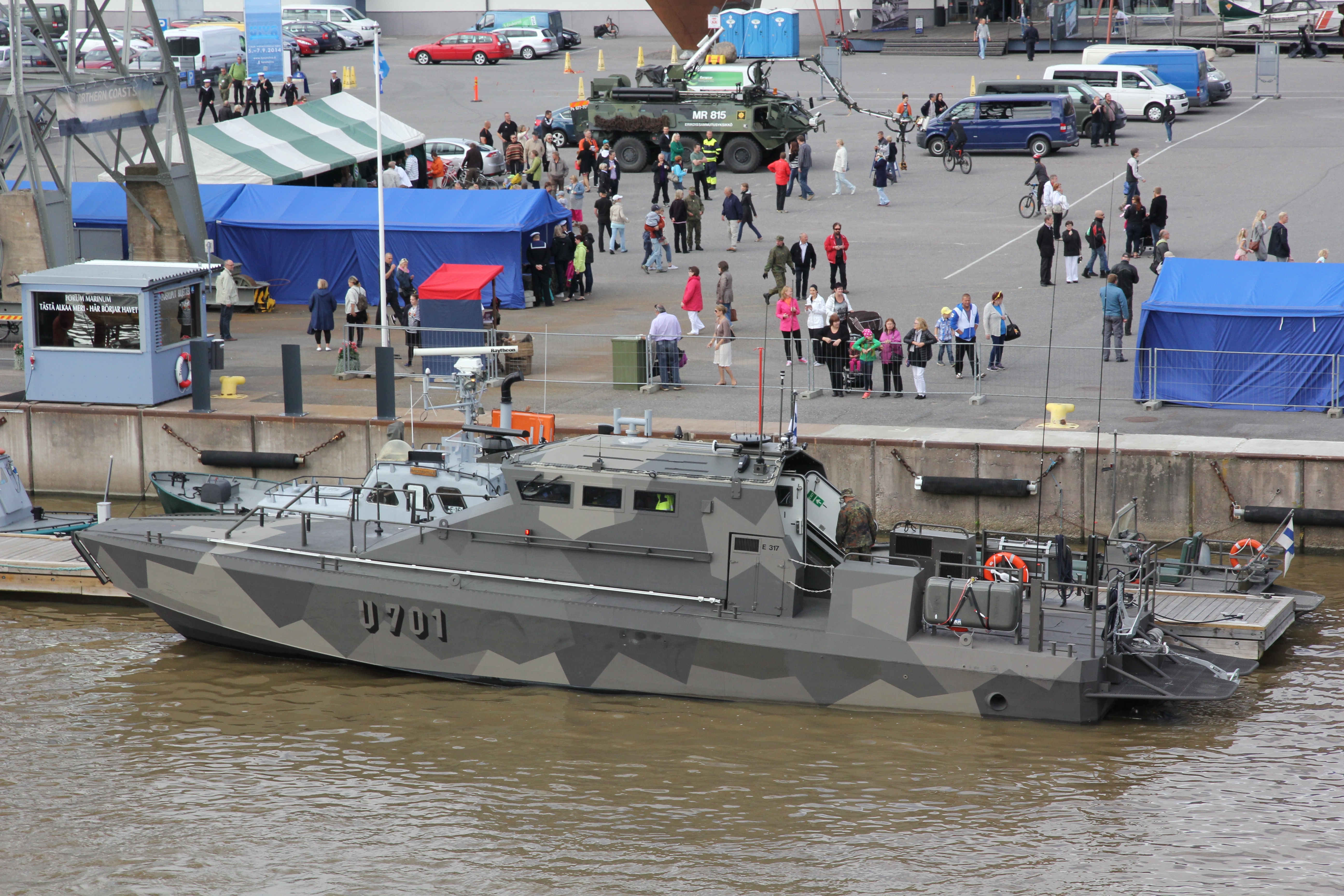 Finnish landing craft U701 in Aura river in Turku during the Northern Coasts 2014 exercise public pre sail event. This vessel is a brand new lead ship of the U700 Jehu class.